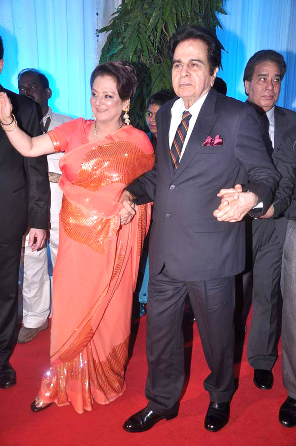 Saira Banu, Dilip Kumar at Esha Deol's wedding reception